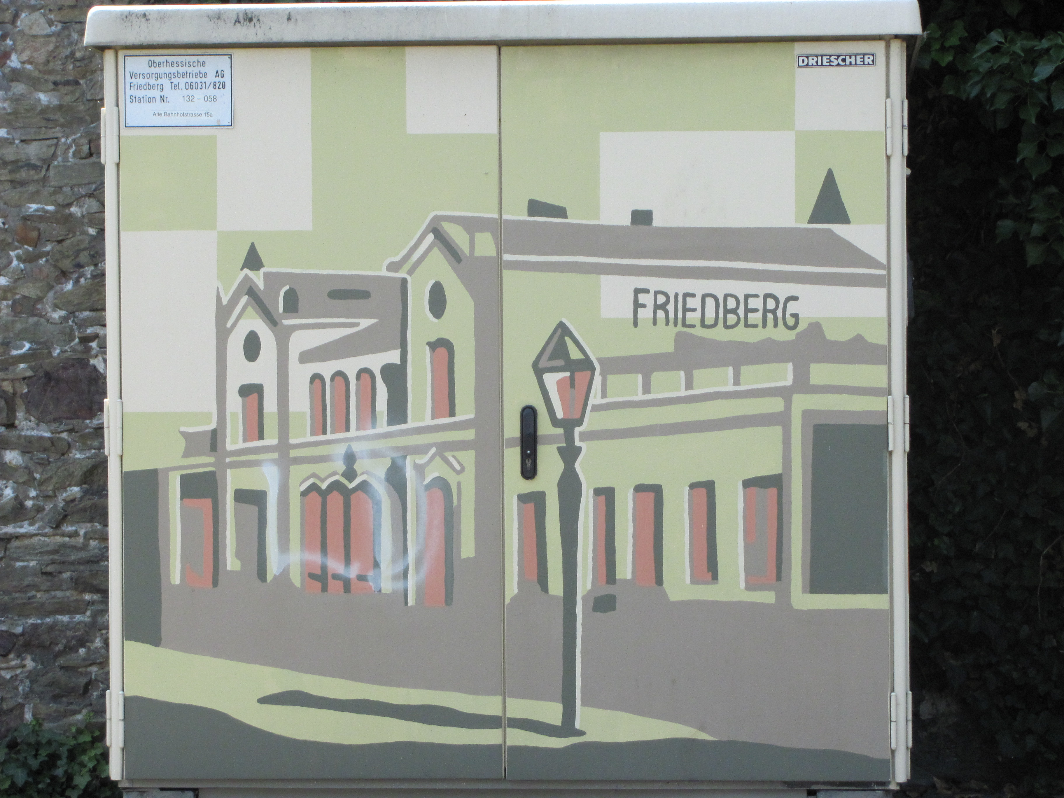 Sketch of old railway station Friedberg (Hesse), Germany